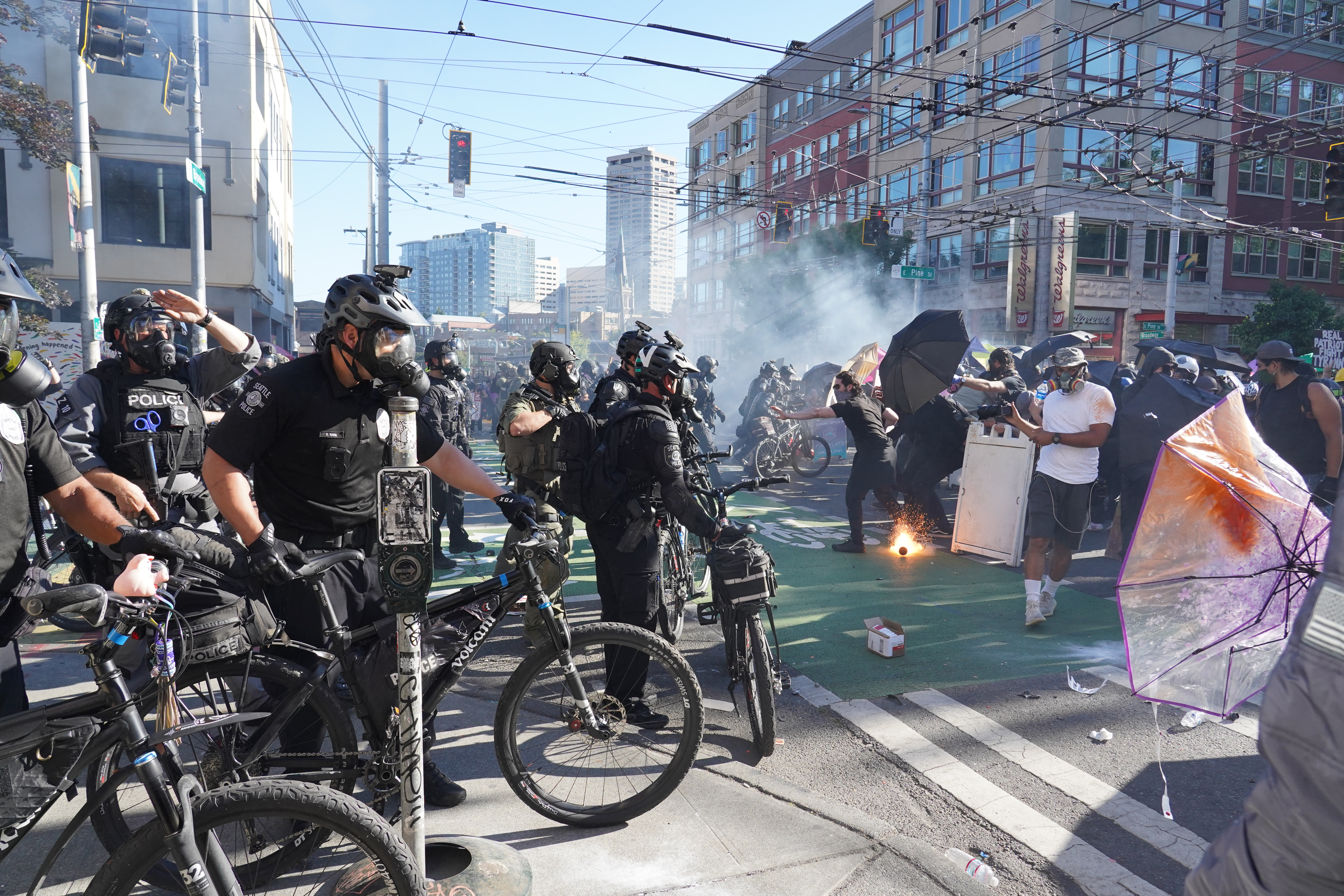 SPD Trying to Disperse Protestors